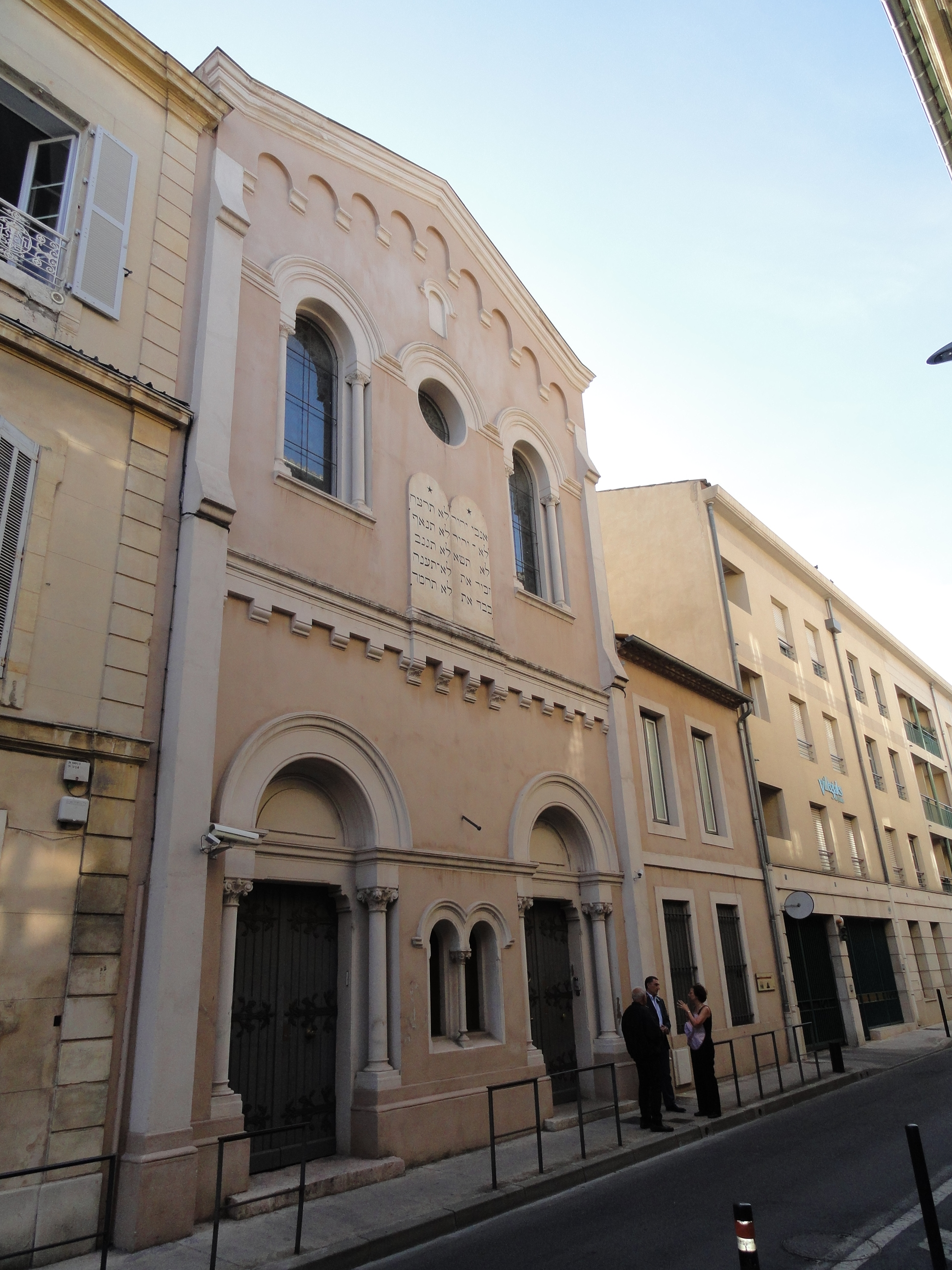 Front of the synagogue of Nîmes